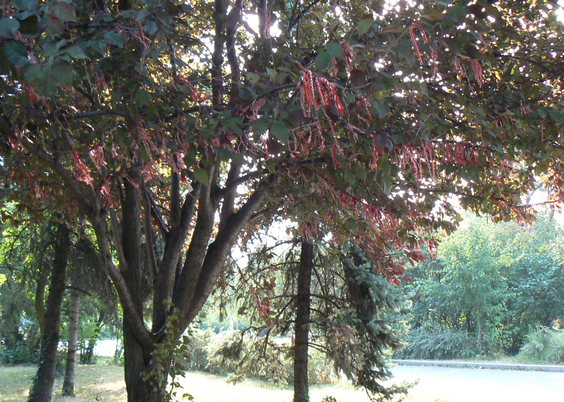 A tree, richly decorated with martenitsas, Sofia, Bulgaria